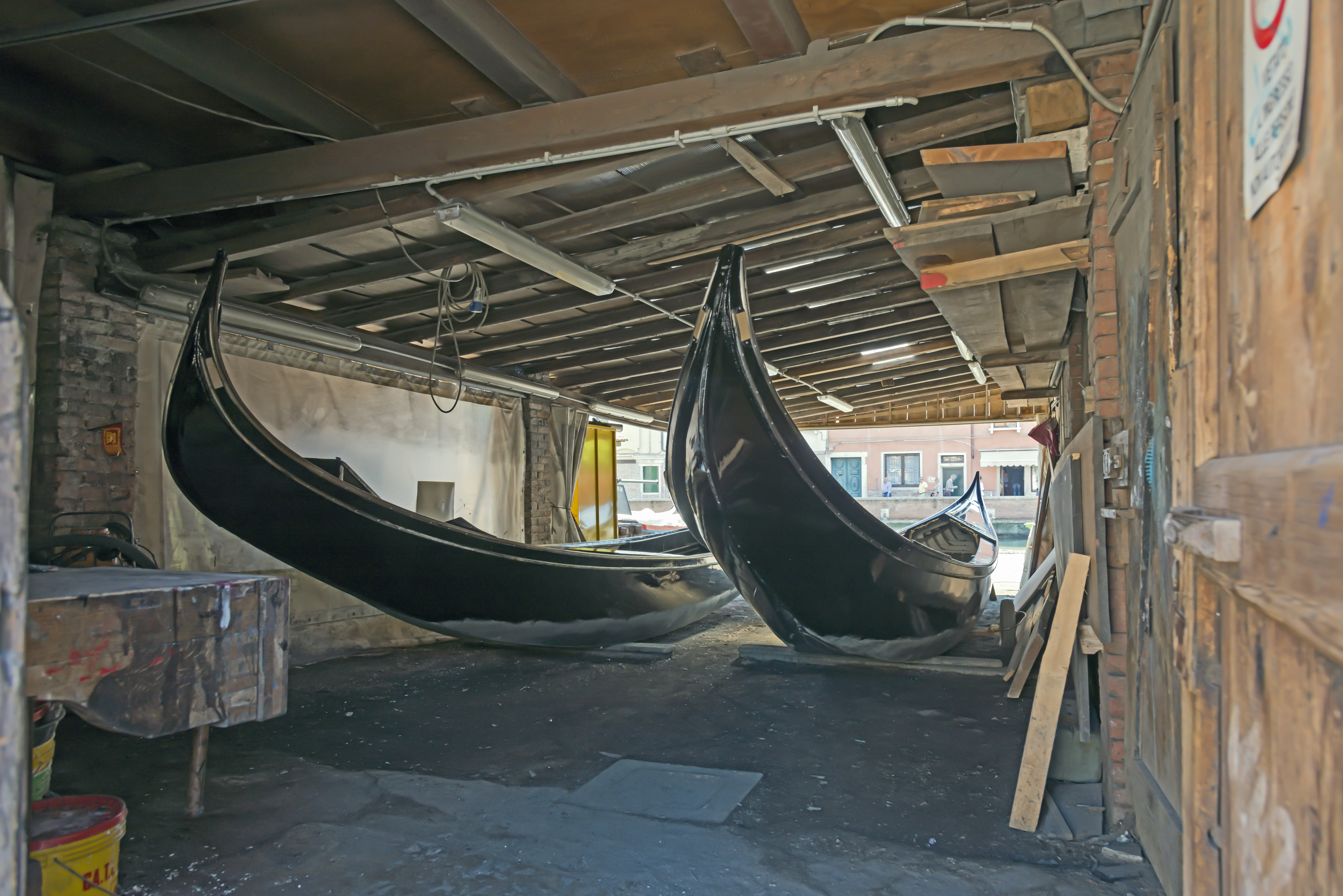 Squero di San Trovaso Venice (construction site gondolas). The boathouse Campo San Trovaso.